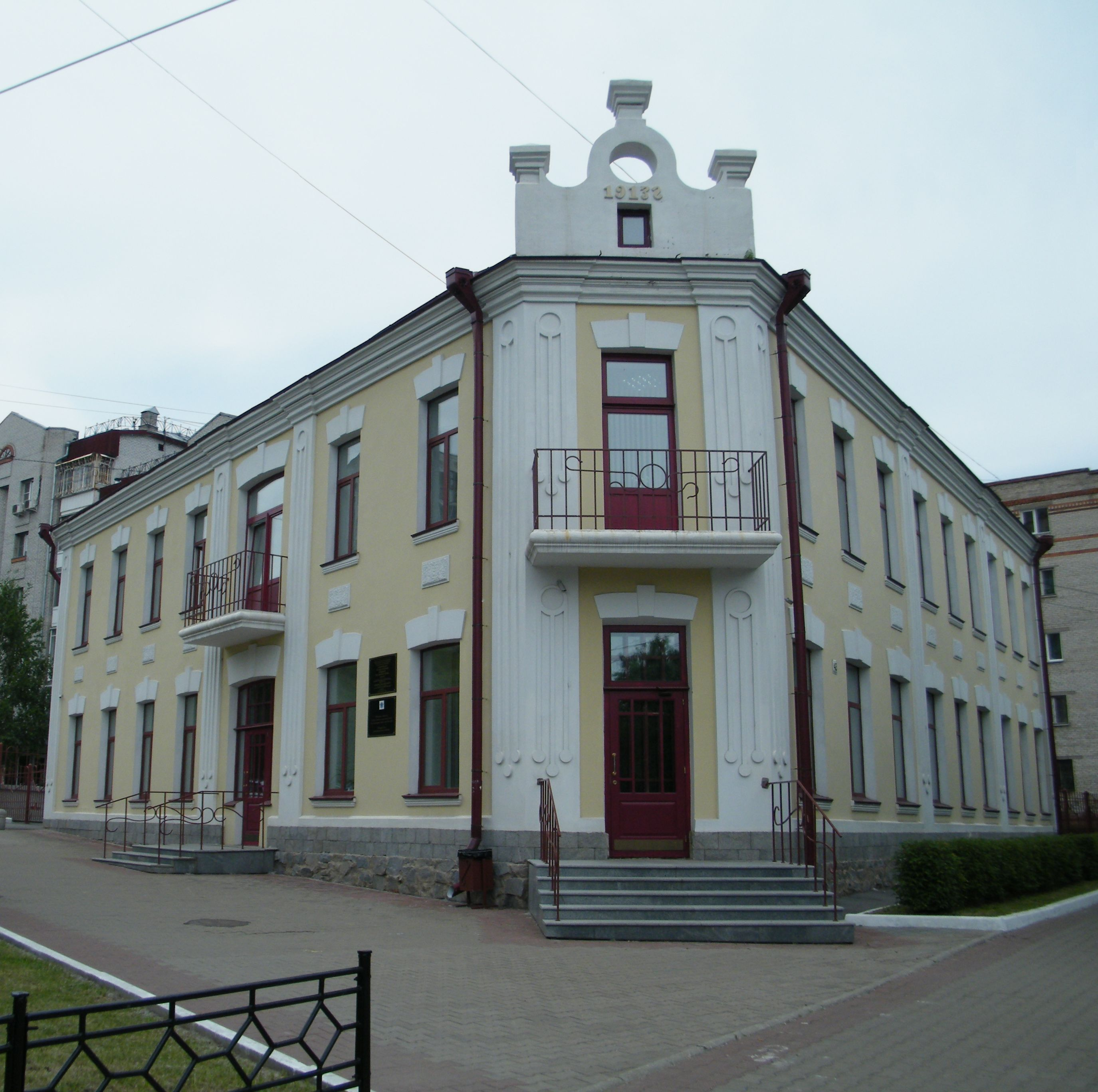 Хабаровская государственная академия экономики и права, юридический факультет